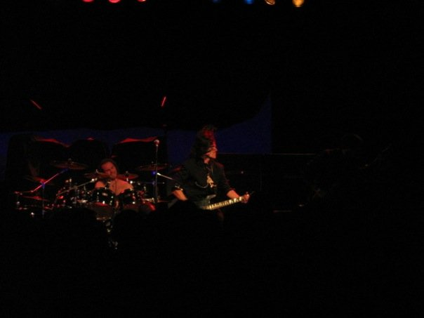 Still from the Immortal/Ruins show in Sydney 2008.